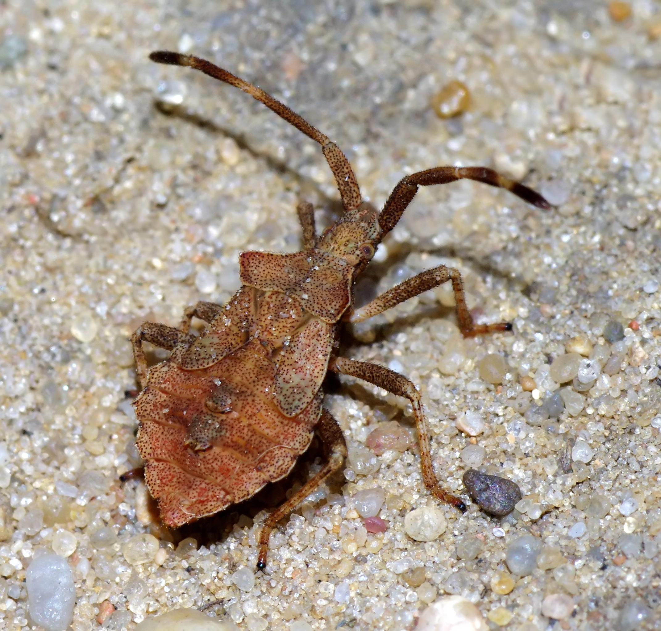 Probably an elder larva (nymph) of the Dock bug, Coreus marginatus.